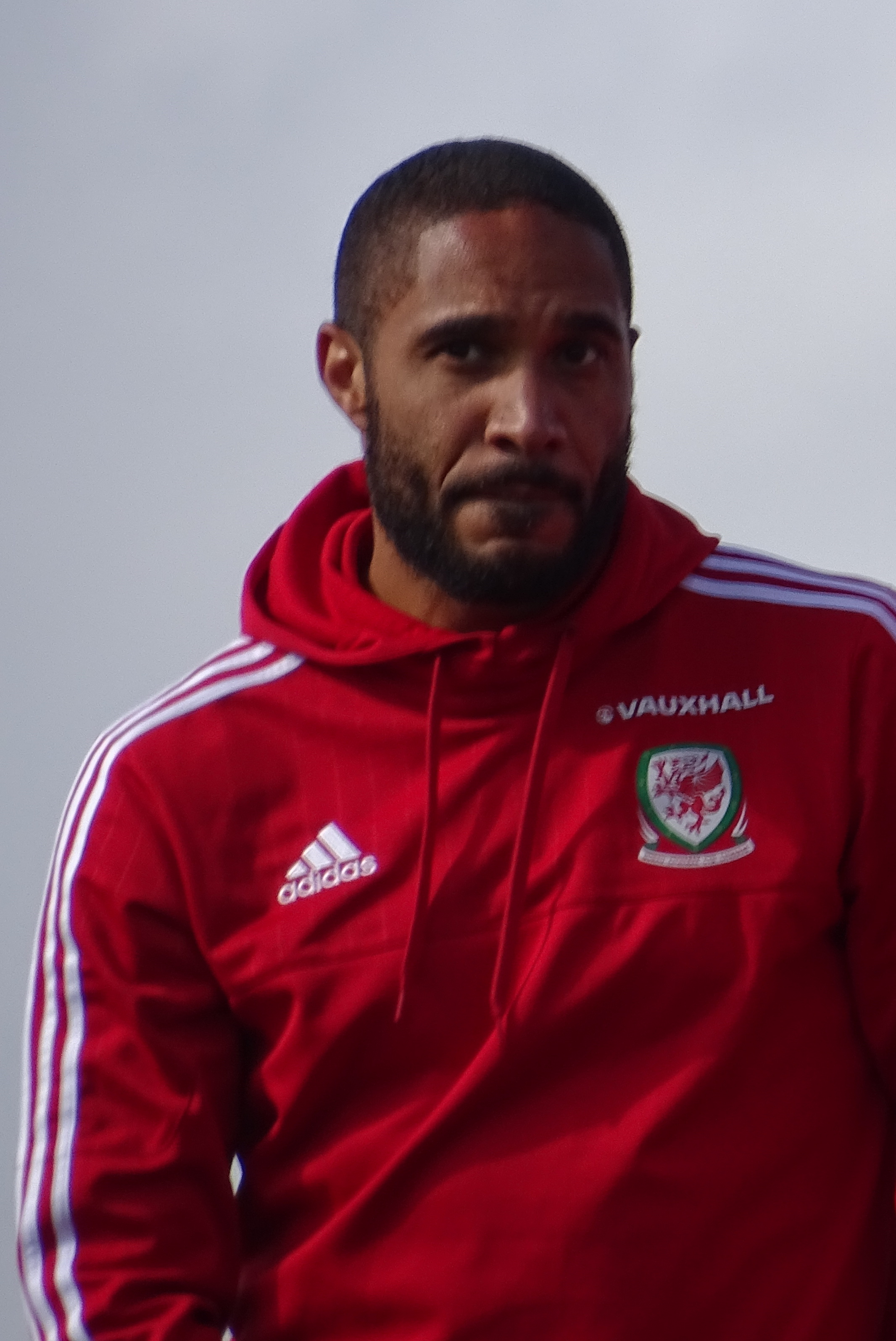 Ashley Williams, Gareth Bale post-Euro 2016 homecoming party.